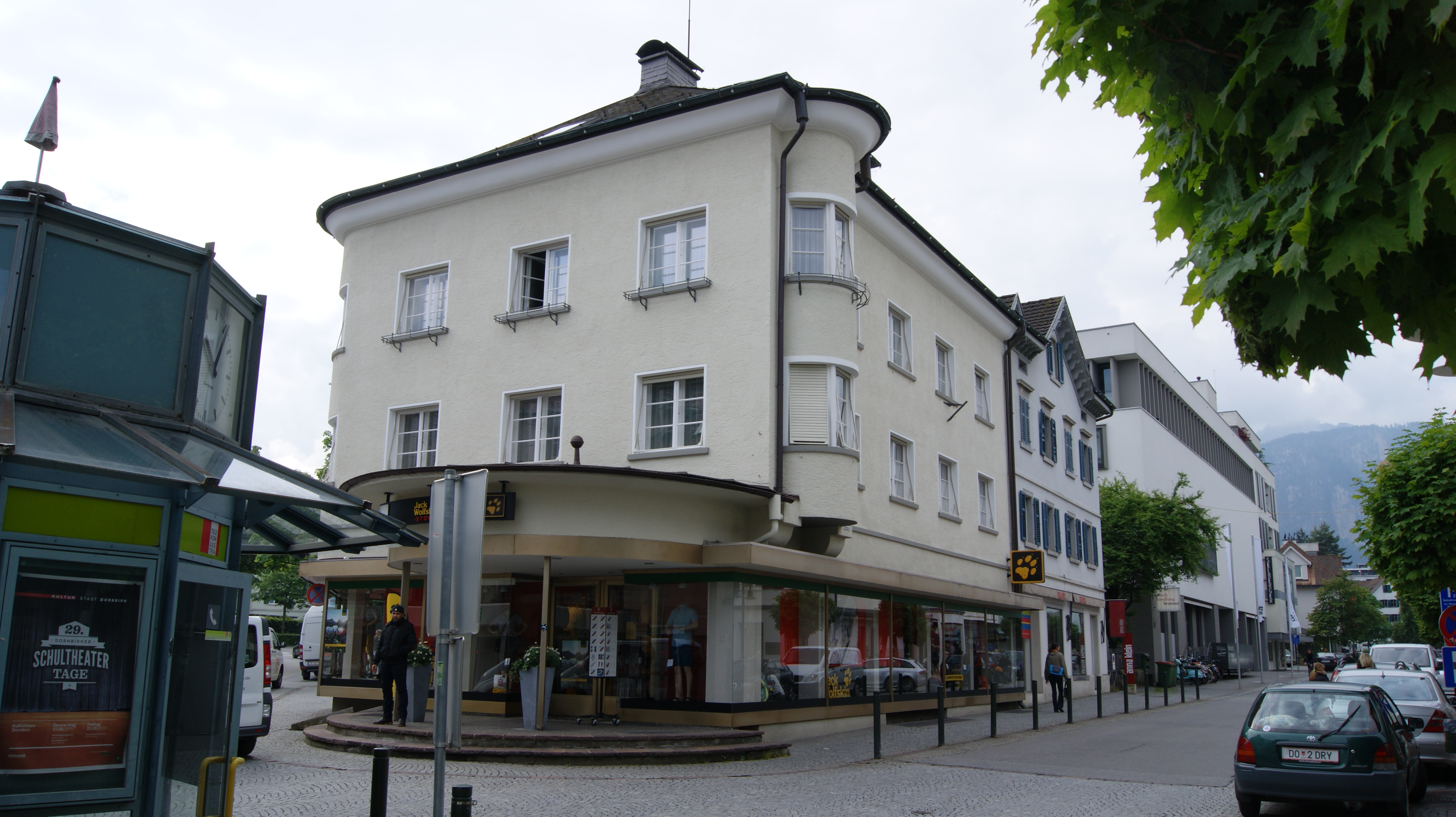 Marktstrasse 29 in Dornbirn, corner Schillerstrasse, Vorarlberg, Austria. Built according to plans by architect Alfons Fritz 1929/1930.